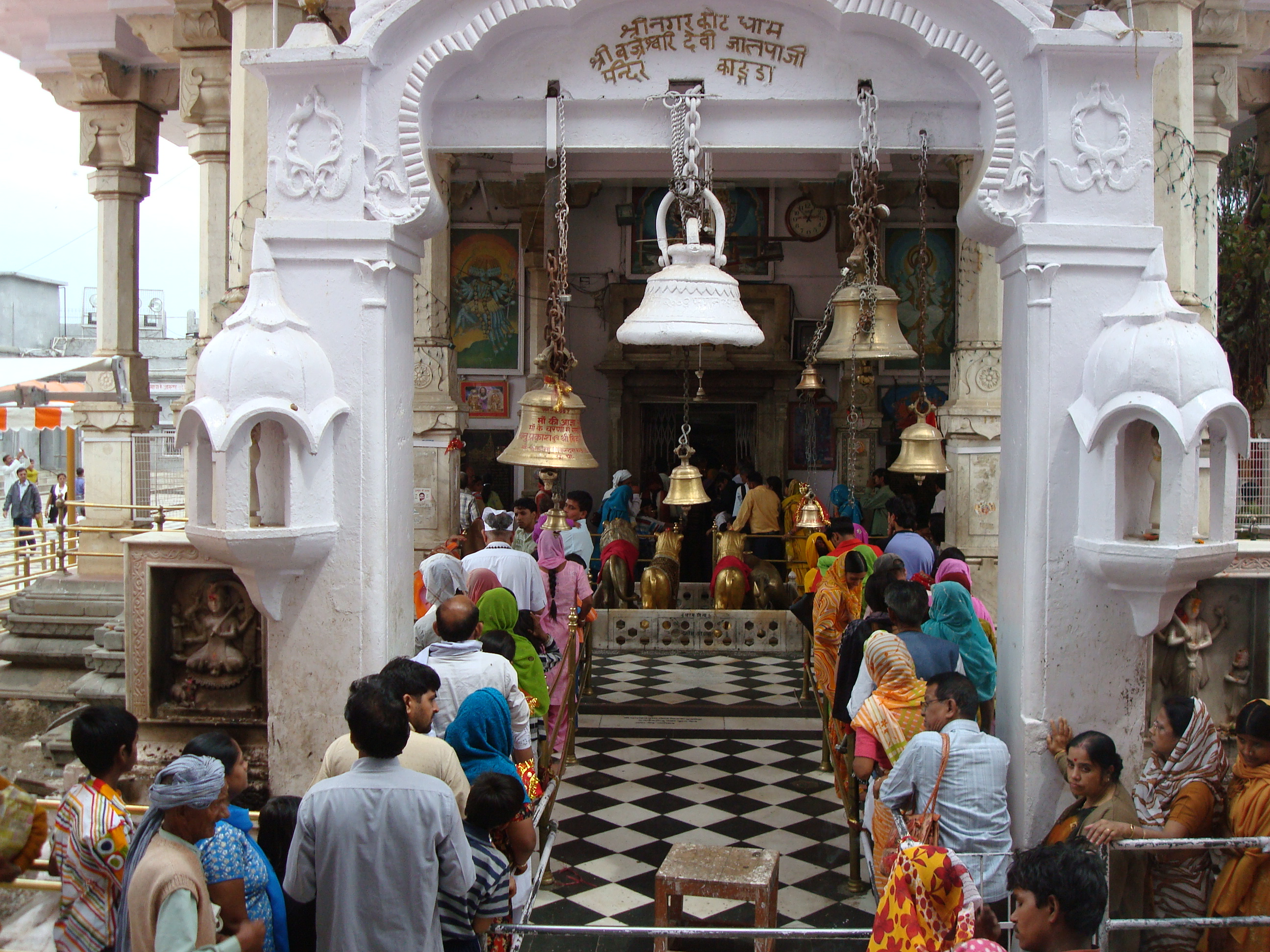 Shri Chamunda temple